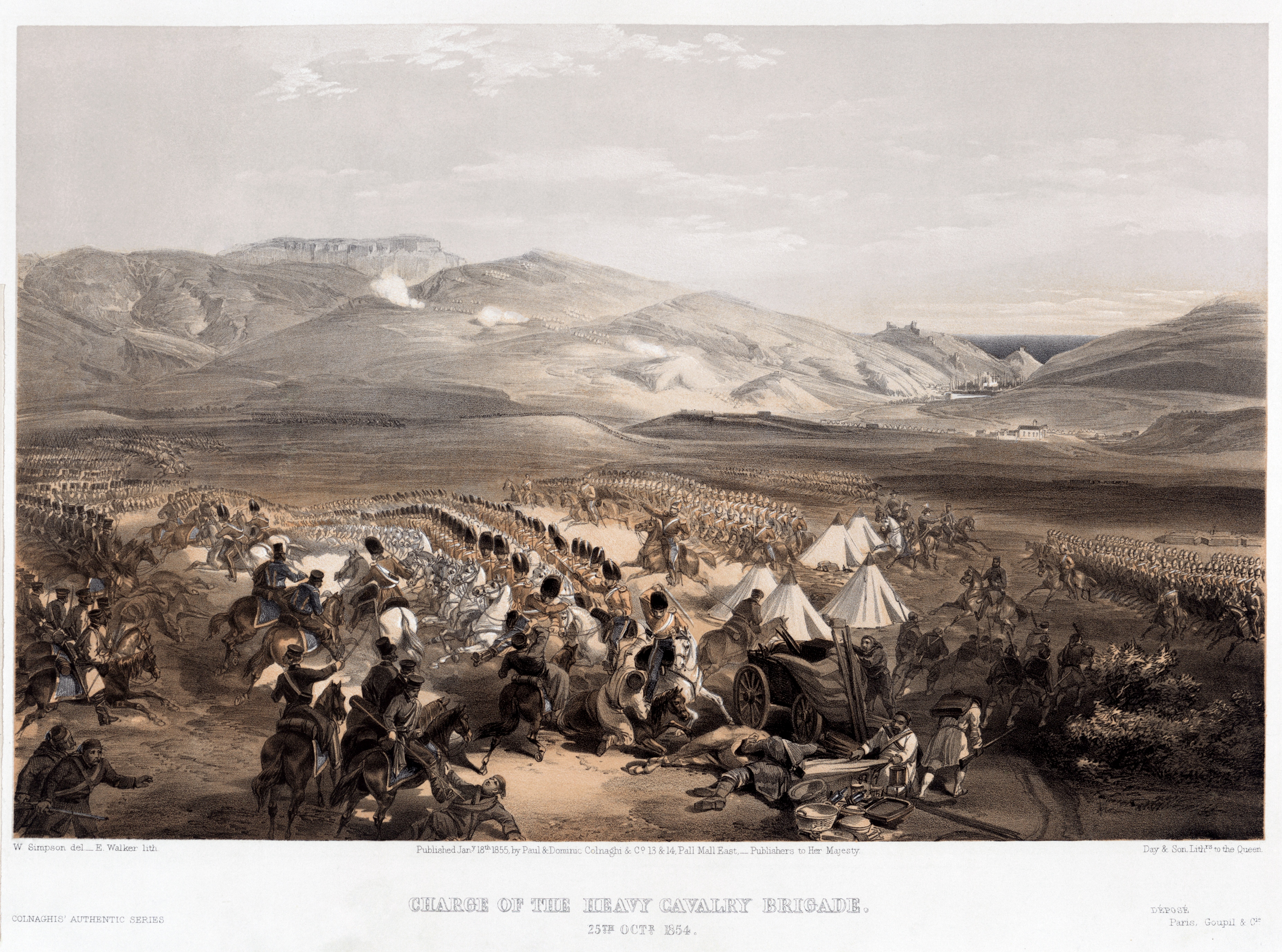 Print shows the Enniskillen Dragoons and the 5th Dragoon Guards engaging the Russian cavalry in the midst of the camp of the light cavalry brigade which is being plundered by the Russian troops during the battle of Balaklava.